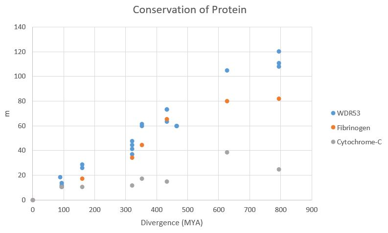 Chart showing mutation rate of WDR53 in comparison to Fibrinogen and Cytochrome-C across different organisms